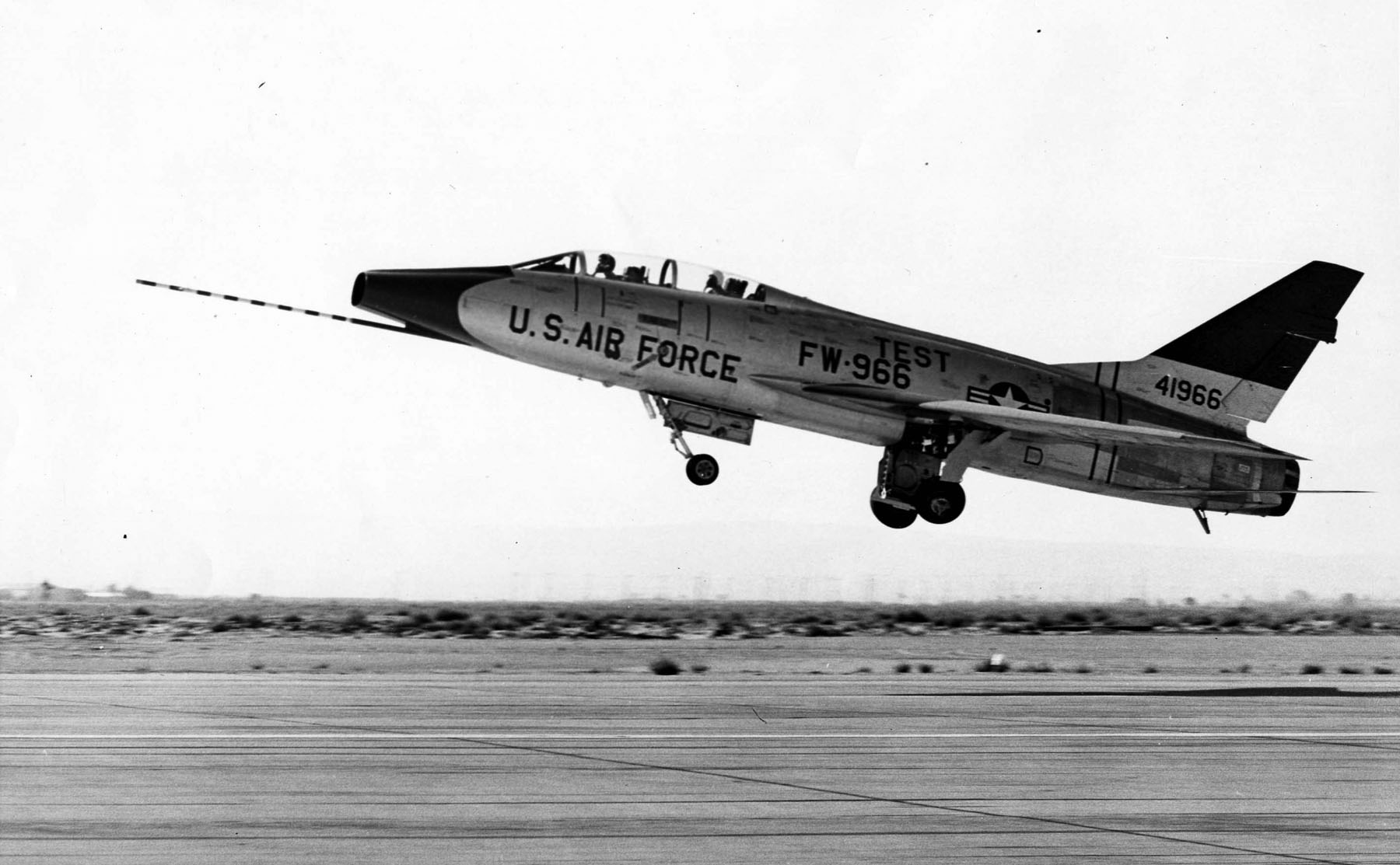 The sole U.S. Air Force North American TF-100C Super Sabre (s/n 54-1966) taking off. The TF-100C was a prototype of the two-seat trainer version of the F-100, developed by North American as a private venture. The TF-100C made its first flight on 17 January 1955. It suffered a serious failure that tore off part of the tail and part of the engine exhaust nozzle, causing it to break apart in midair on 9 April 1957, north-west of Kramer Junction, California (USA). The pilot, Robert Baker, ejected safely. 339 two-seat F-100Fs were built, based on the F-100D.